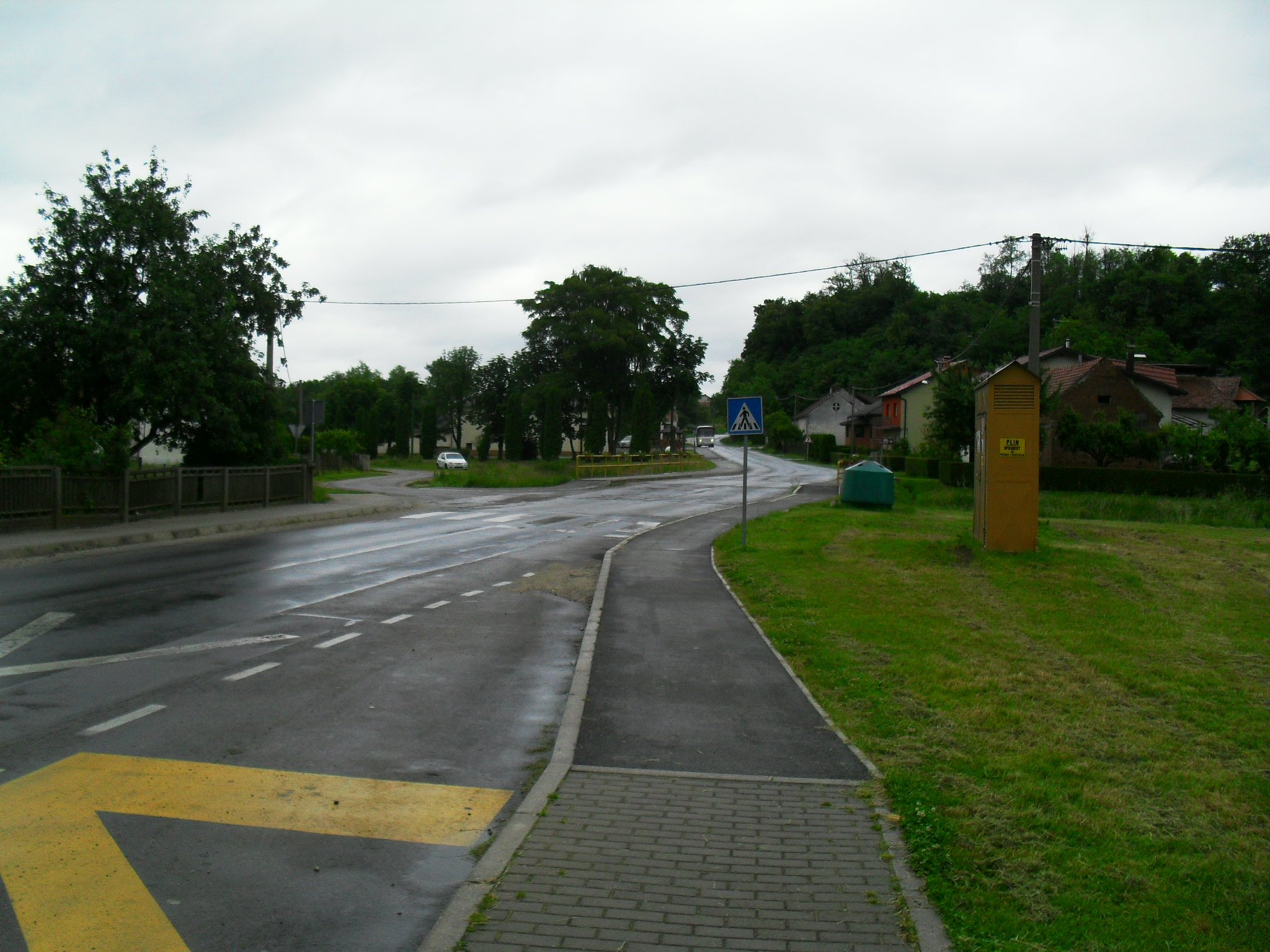 Peklenica, Međimurje Croatia